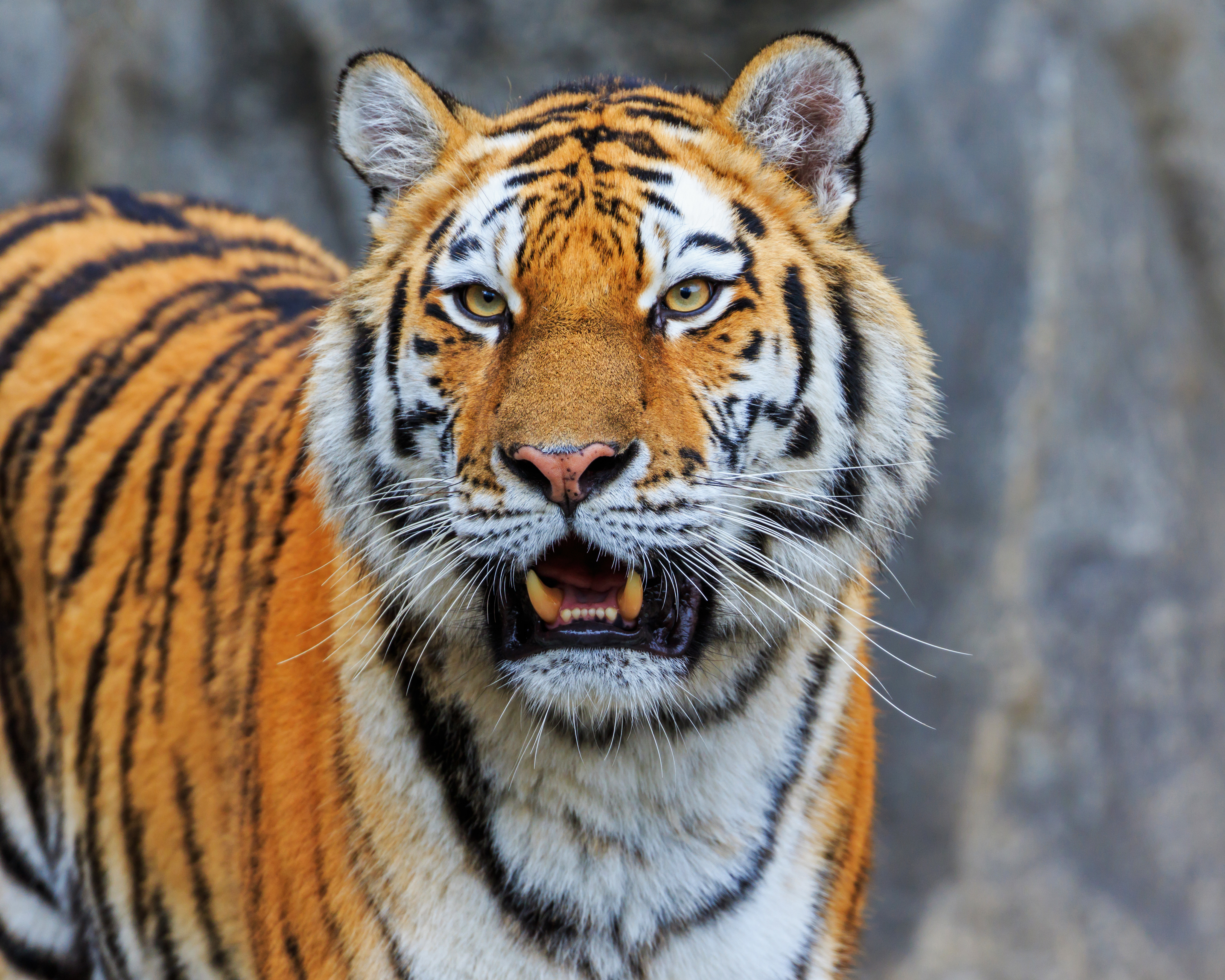 A Siberian tiger in the Berlin Tierpark (Friedrichsfelde zoo)